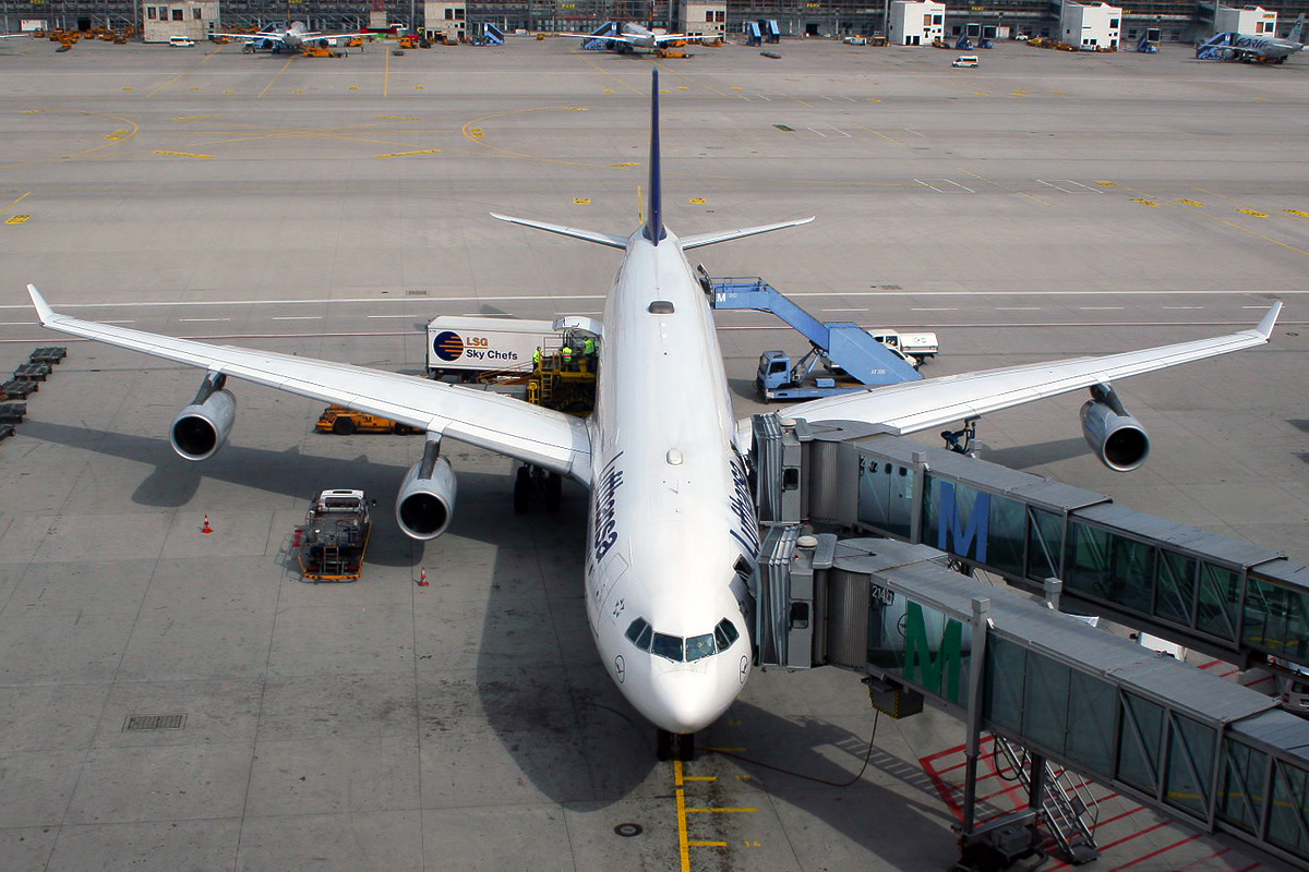 Munich (EDDM/MUC) Airport